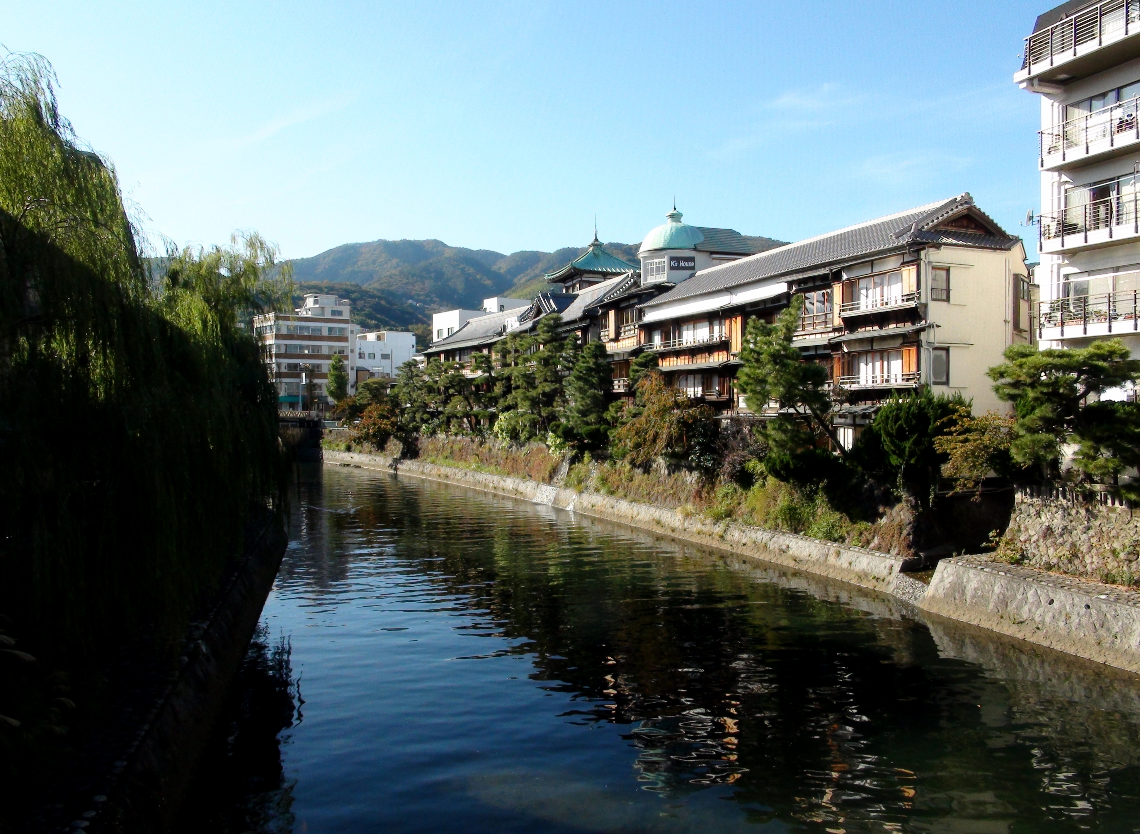 Ito hot spring, upstream side view than Okawa Bridge